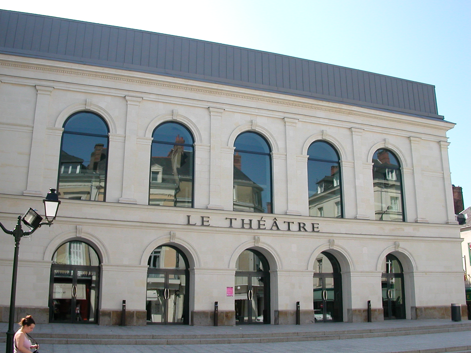 Theater of Laval (Mayenne)